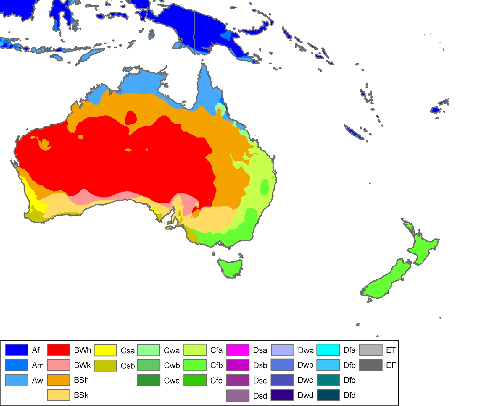 Climate map of Australia and part of Oceania (from the "Updated world map of the Köppen-Geiger climate classification").